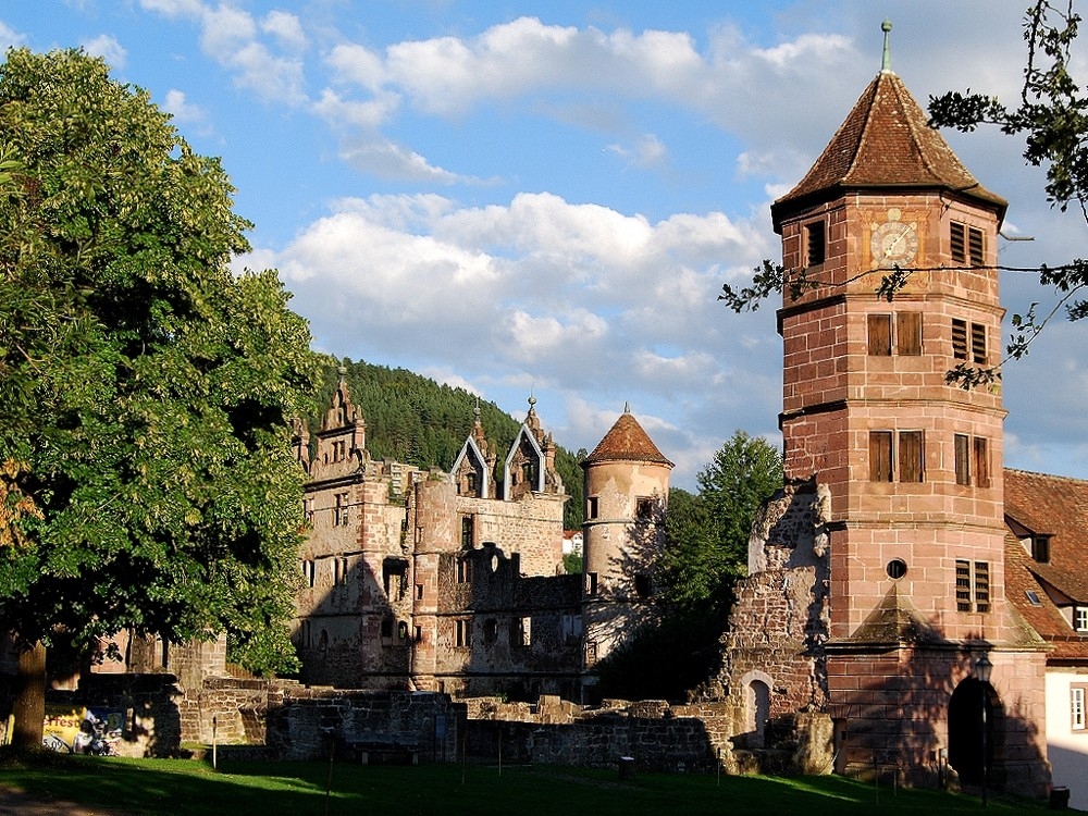 Hirsau Abbey